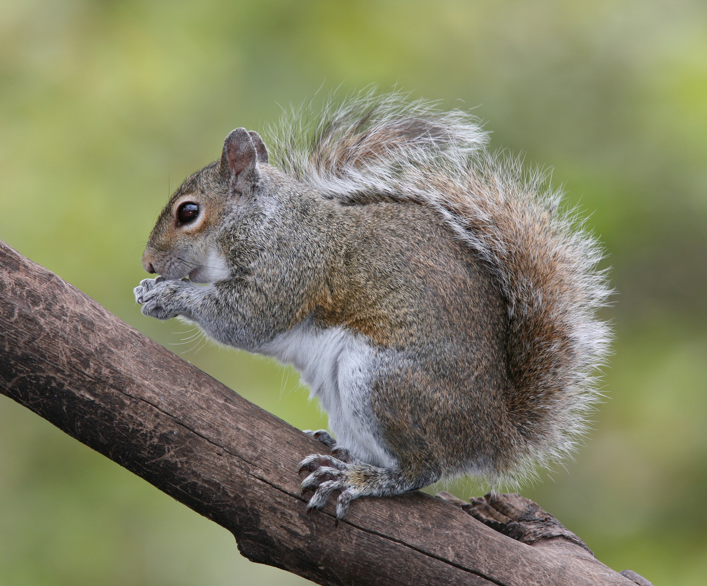 Eastern Grey Squirrel (Sciurus carolinensis) in Florida.